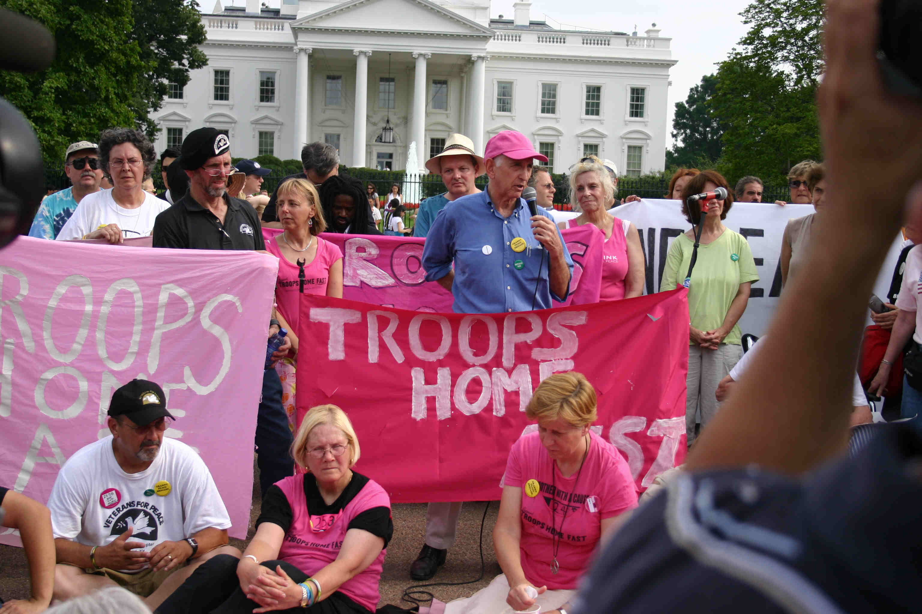 Daniel Ellsberg at the microphone with Medea Benjamin (Code Pink) on the left . 2006 Independence Day Troops Home Fast . Hunger Strike . The White House . 1600 Pennsylvania Avenue, NW . WDC . Monday evening, 3 July 2006 . 5 PM . Elvert Xavier Barnes Protest Photography